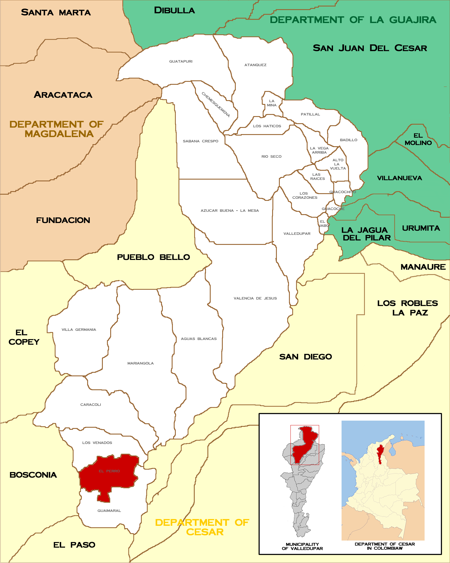 Map of Corregimientos of Valledupar, El Perro